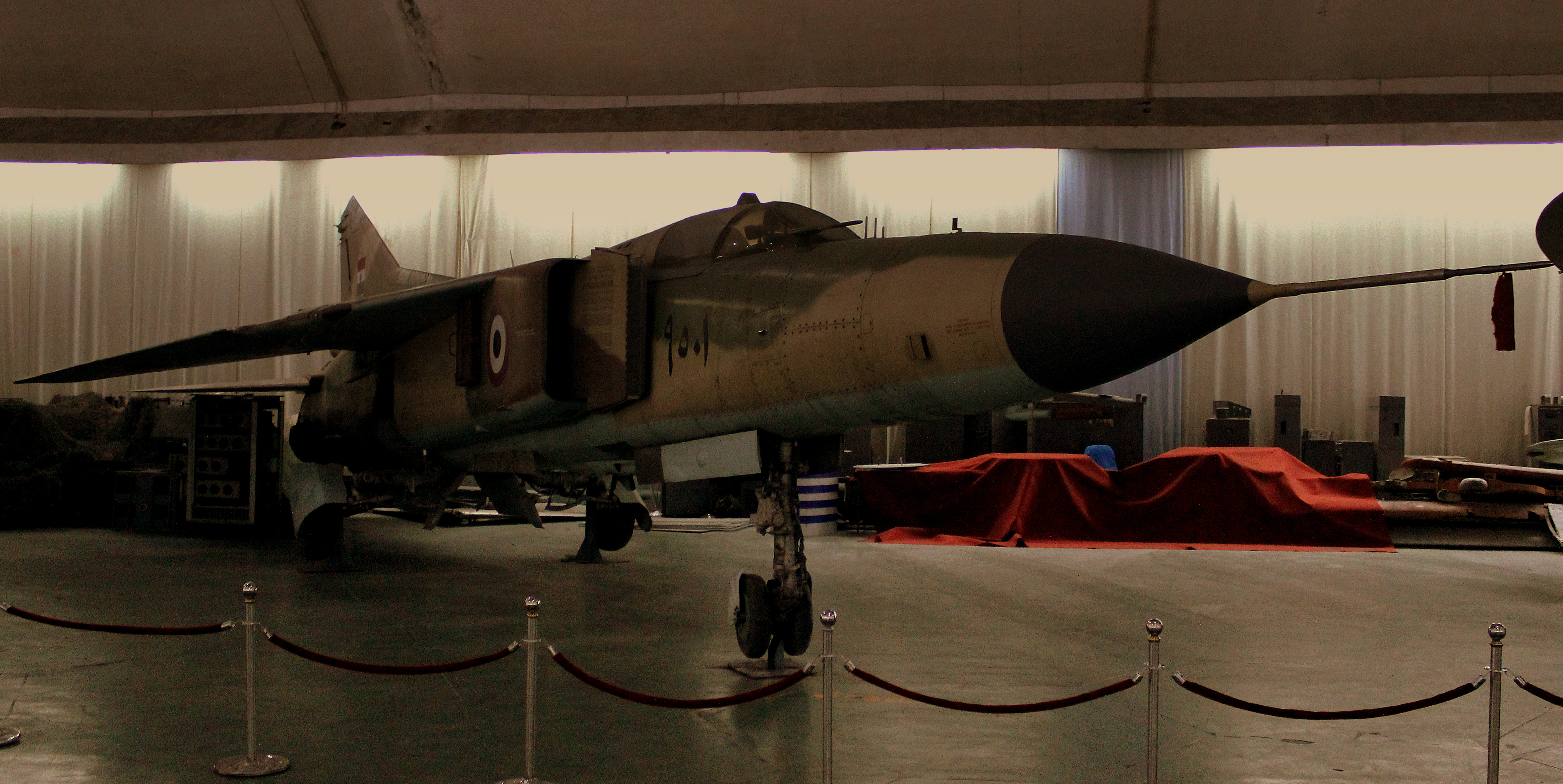 Ex-Egyptian Air Force MiG-23 at the Datanshan Aviation museum